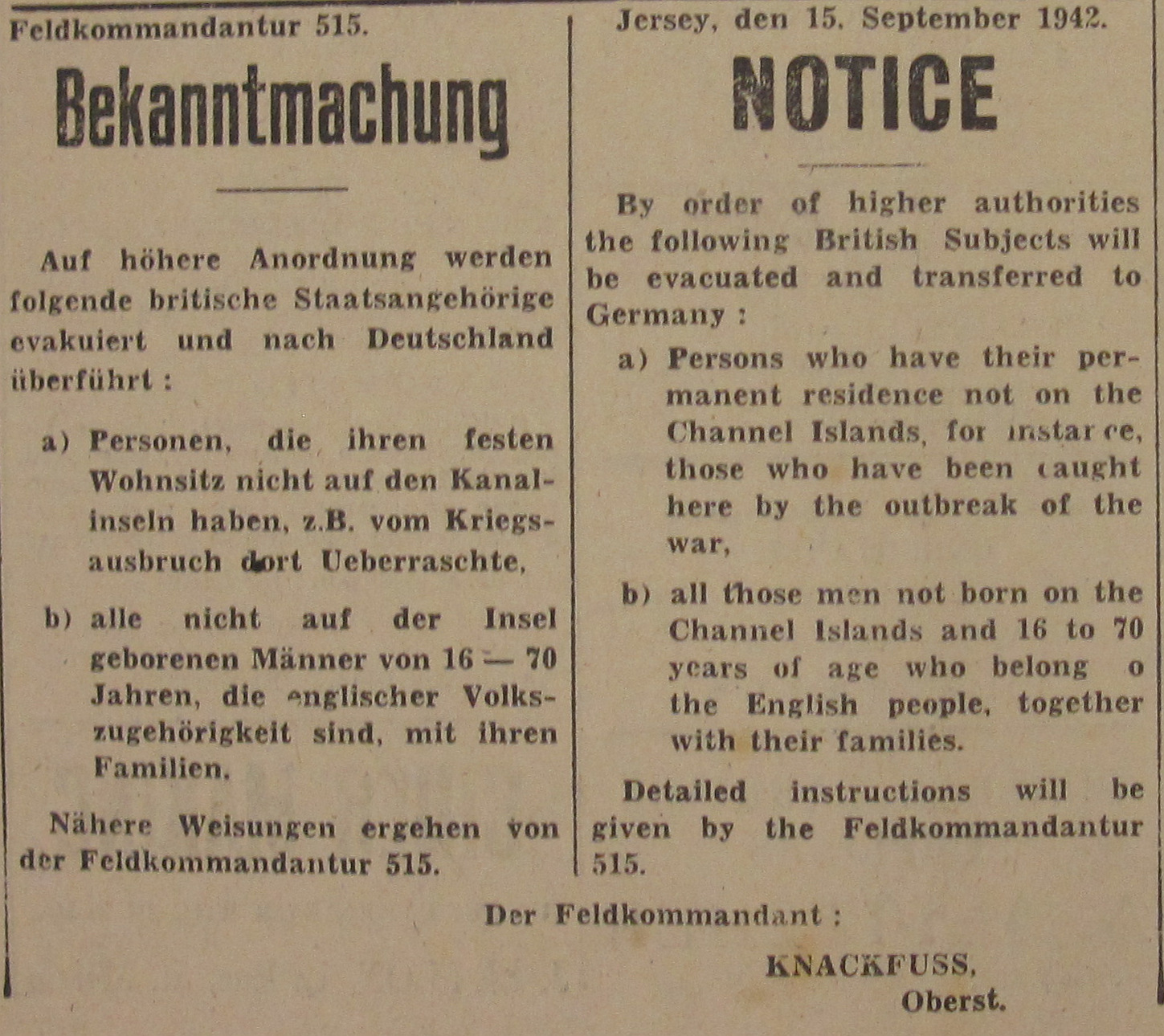 192: German decree from Occupation of Jersey This image is in the public domain according to German copyright law because it is part of a statute, ordinance, official decree or judgment (official work) issued by a German authority or court (§ 5 Abs.1 UrhG).